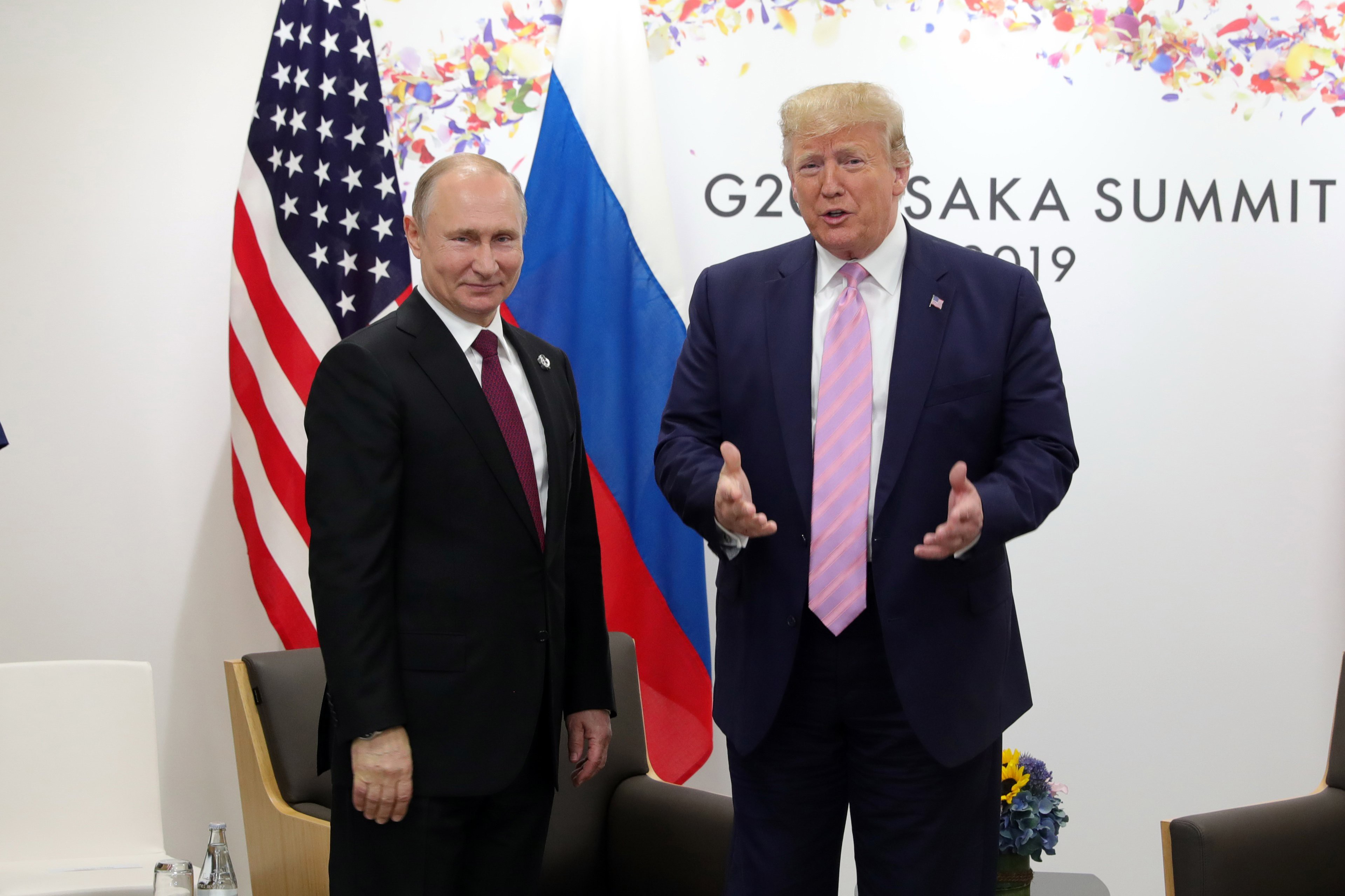 With President of the United States Donald Trump.